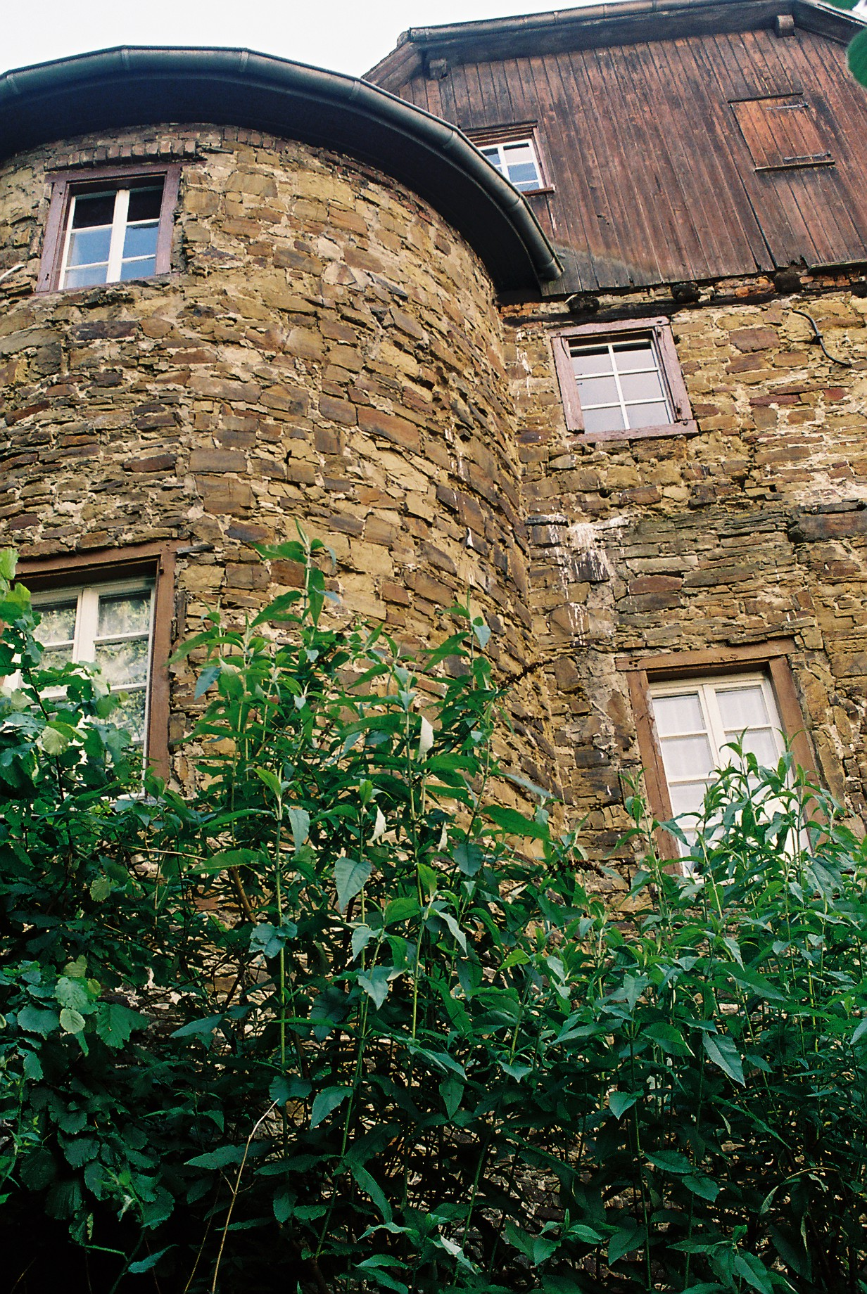 Burg Honrath in Lohmar, eastern side